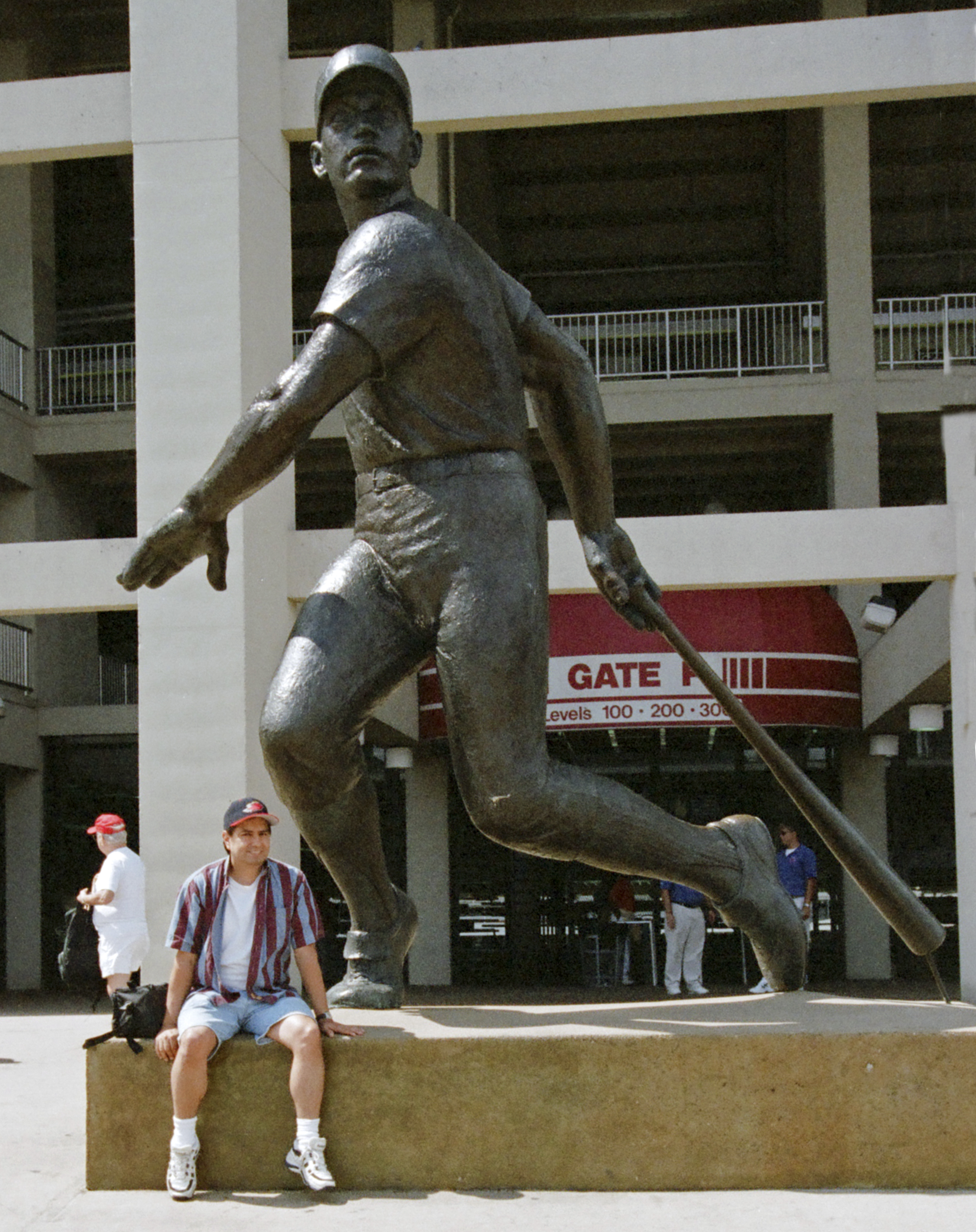 Statue standing outside Veterans Stadium